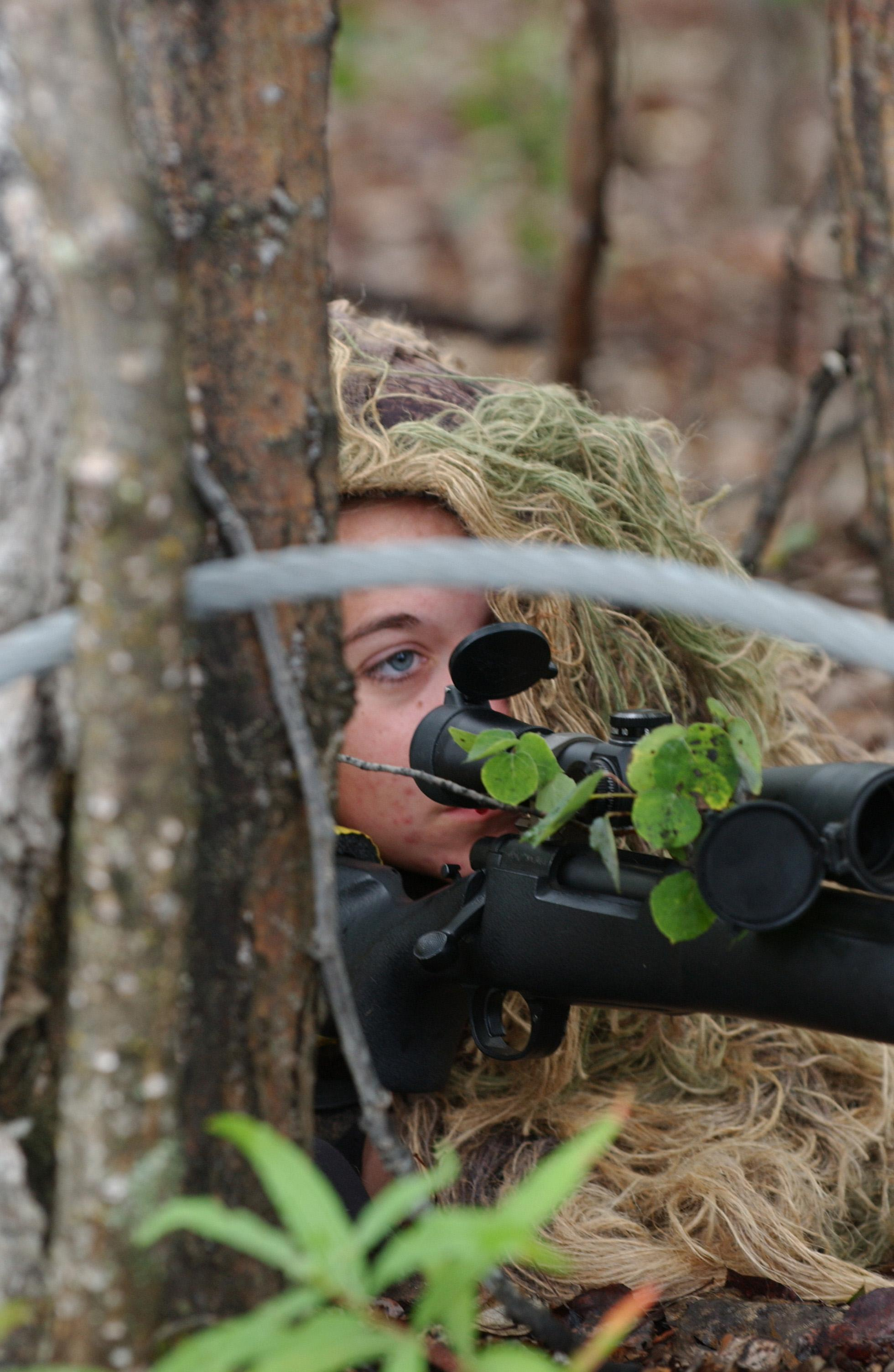 U.S. Air Force Airman 1st Class Kristin Ferris positions herself in the brush during an exercise scenario at Eielson Air Force Base, Alaska, on Aug. 8, 2006. Ferris, one of only five enlisted female snipers in the Air Force, is attached to the 354th Security Forces Squadron.